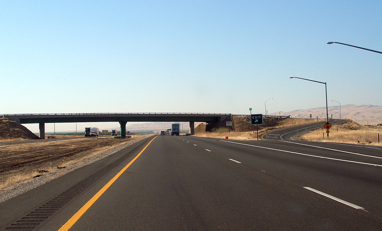 Interstate 5 southbound near Mendota, California. Photographed on June 23, en:2006 by user Coolcaesar.